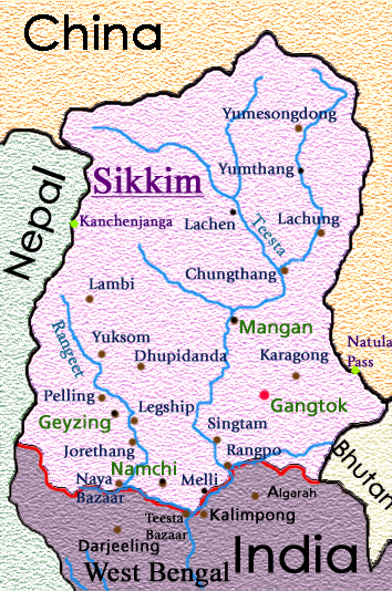 Towns of Sikkim, India Names in green are the district capitals. The red dot is the state capital, Gangtok.